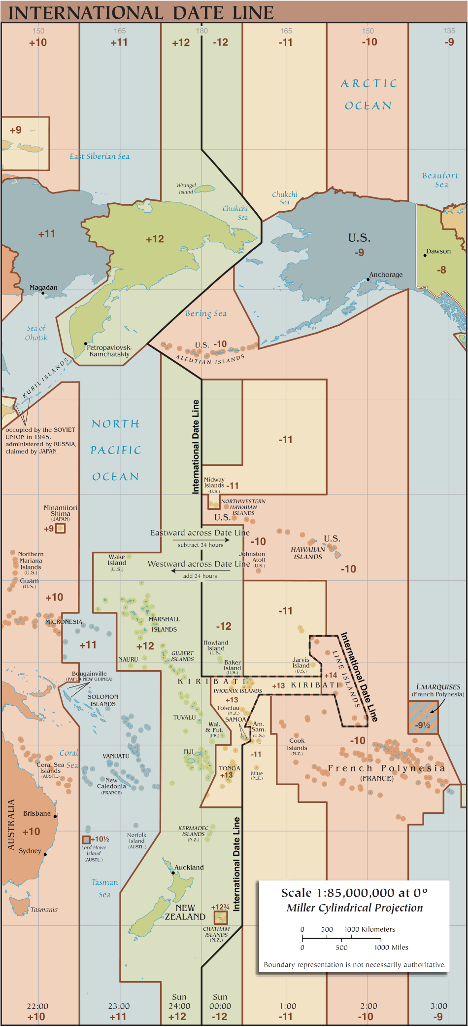 Map illustrating the current (post 2011) International Date Line